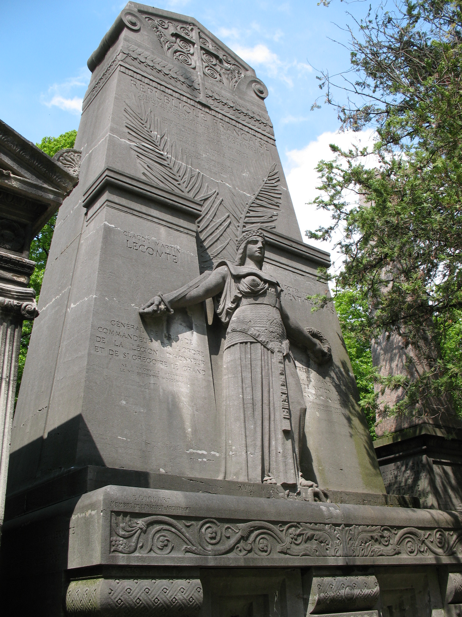 monument to générals Clement-Thomas and Lecomte, Père Lachaise Paris